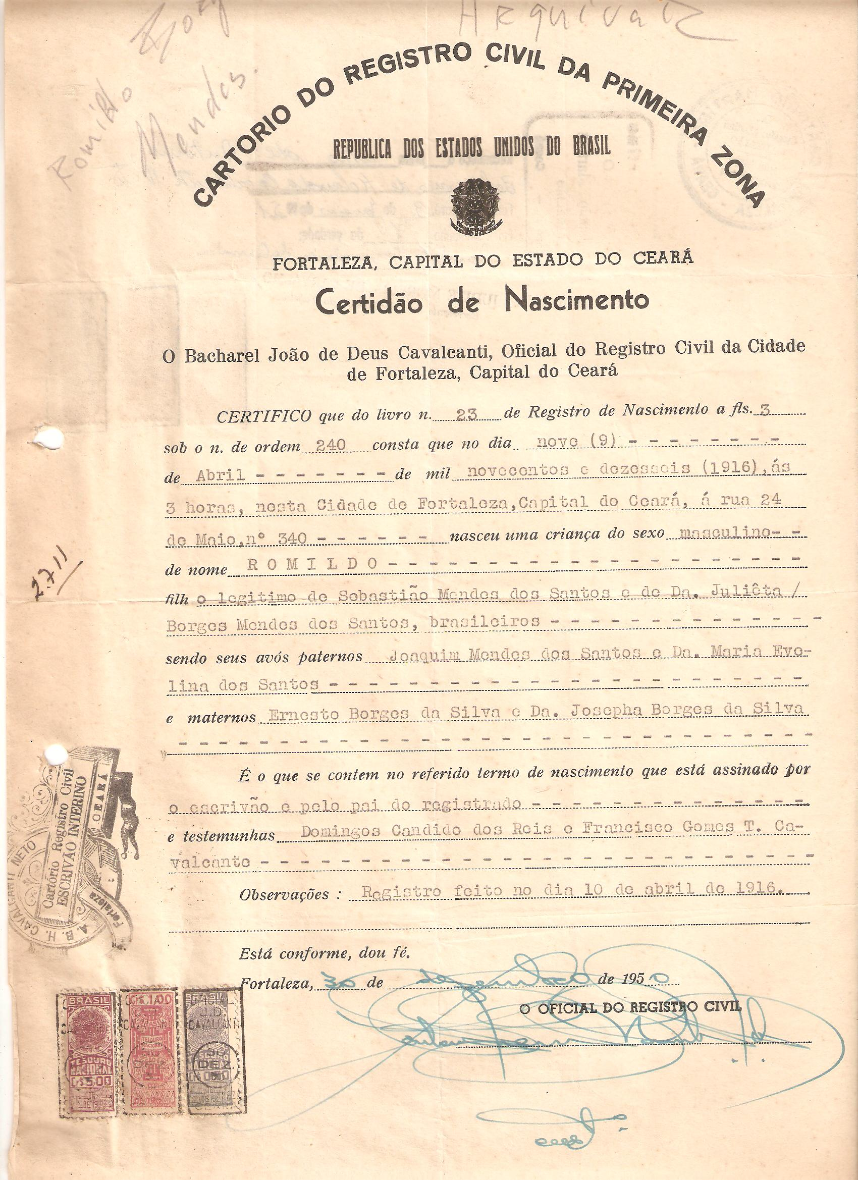 Arquivo Memorial Dr. Romildo Borges Mendes